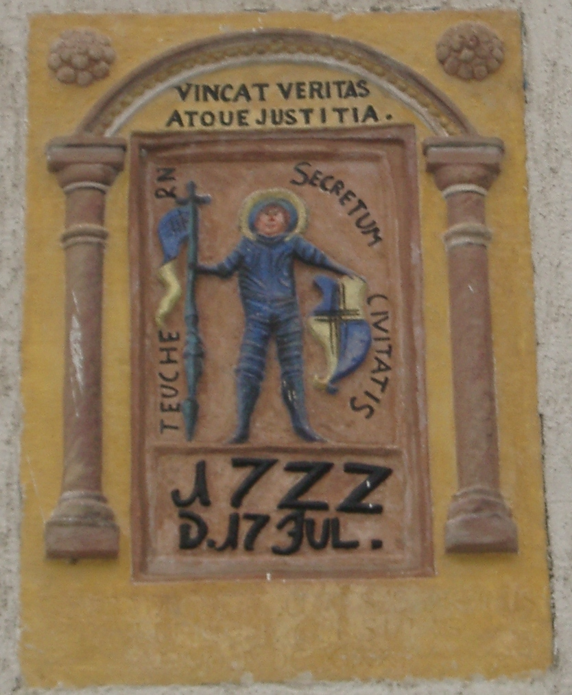 Latin text at town hall of Teuchern, Saxony-Anhalt, Germany VICAT VERITAS ATQUE IUSTITIA - TEUCHERN SECRETUM CIVITATIS 17. JUL 1722